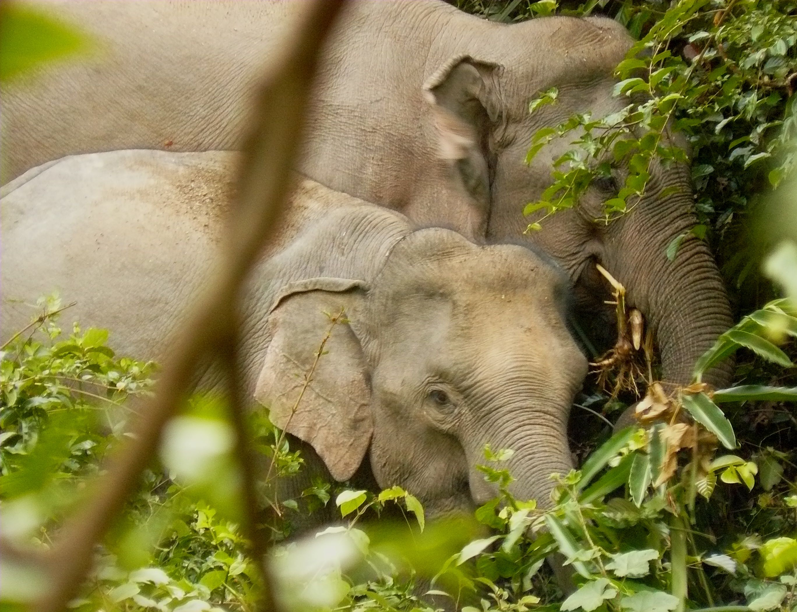 Wild Asian elephants (Elephas maximus) at Khao Yai National Park, Thailand